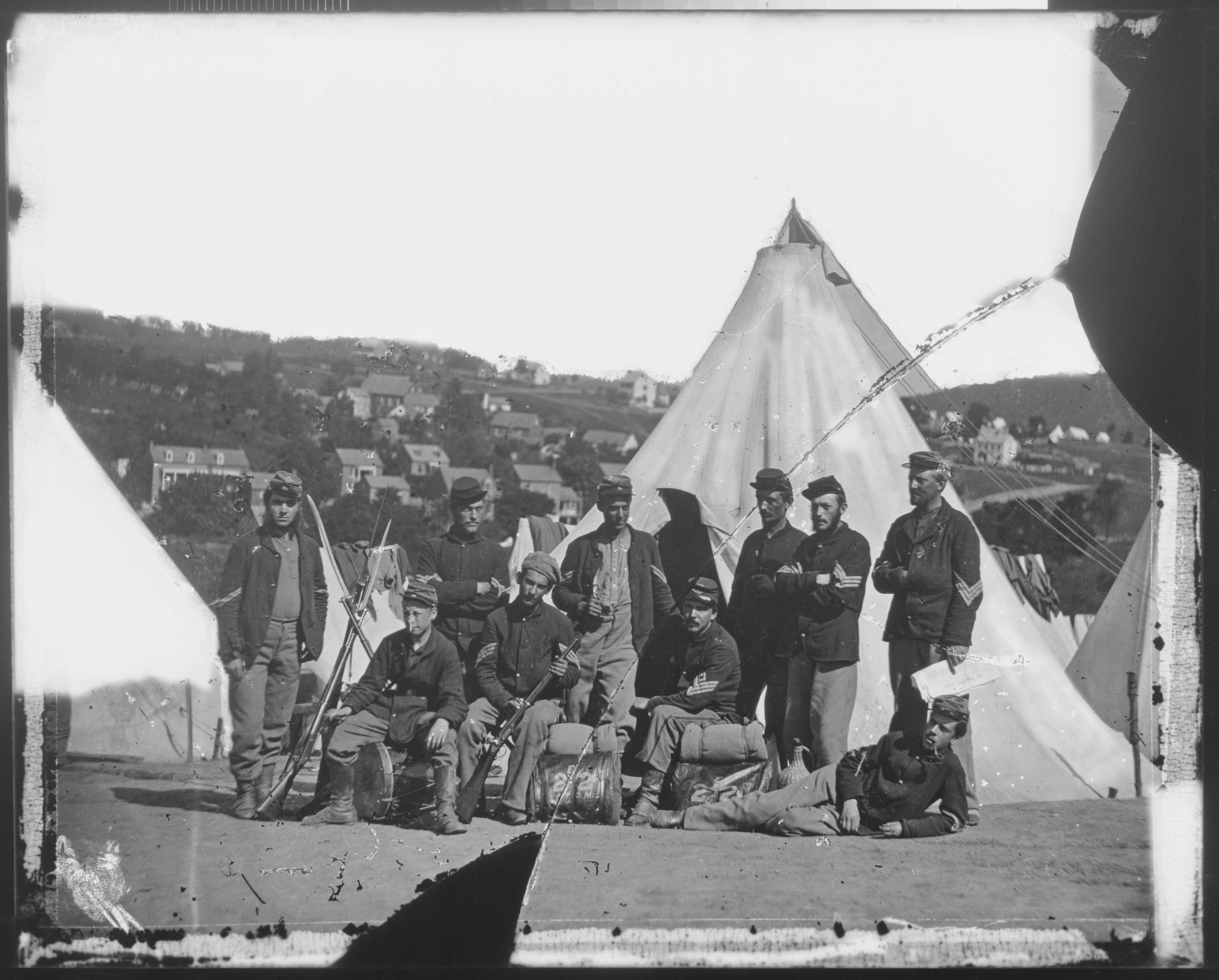 Photo of New York State Militia during Civil War: Co. "E", 22nd N.Y. State Militia, near Harpers Ferry (National Archives). ARC Identifier: 524561 Local Identifier: 111-B-142 Title: Co. "E", 22nd N.Y. State Militia, near Harpers Ferry, ca. 1860 - ca. 1865 Digital Copy associated with the title Large image (76350 Bytes) Creator: War Department. Office of the Chief Signal Officer. (08/01/1866 - 09/18/1947) ( Most Recent). Type of Archival Materials: Photographs and other Graphic Materials Level of Description: Item from Record Group 111: Records of the Office of the Chief Signal Officer, 1860 - 1982. Series: Mathew Brady Photographs of Civil War-Era Personalities and Scenes, 1921 - 1940. Location: Still Picture Records LICON, Special Media Archives Services Division (NWCS-S), National Archives at College Park, 8601 Adelphi Road, College Park, MD 20740-6001 PHONE: 301-837-3530, FAX: 301-837-3621, Coverage Dates: ca. 1860 - ca. 1865